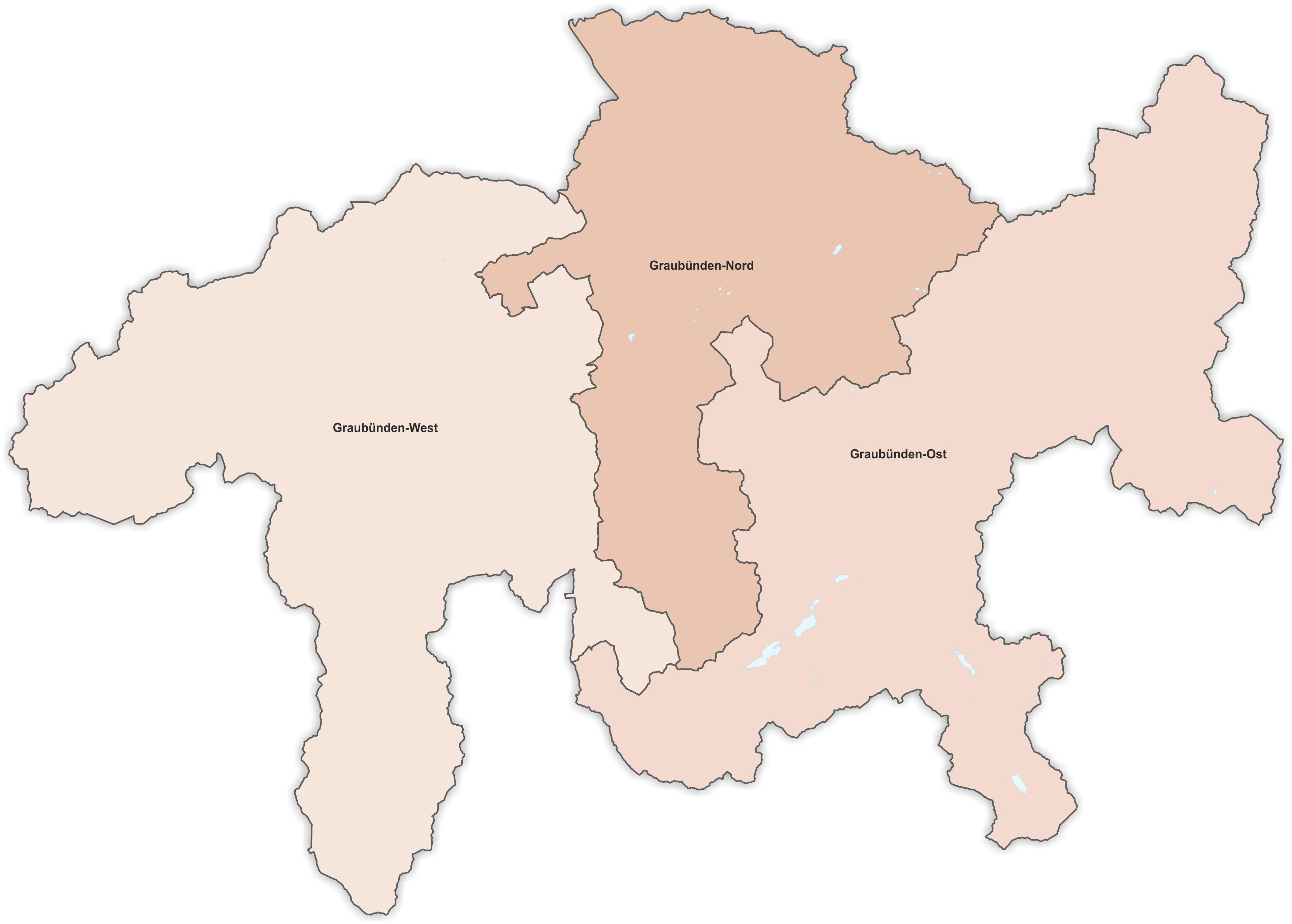 National council constituencies in the canton of Graubünden from 1863 to 1899